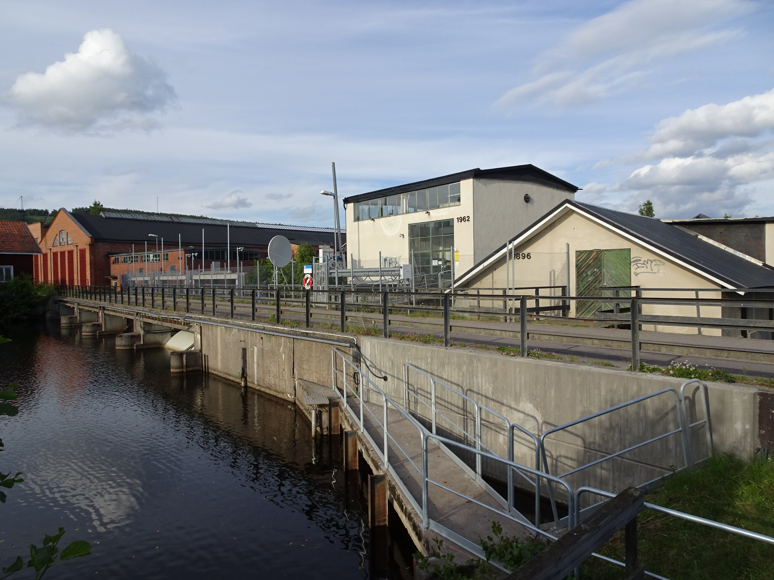 Morgårdshammars dam and power station in Kolbäcksån. Originally built in 1896, upgraded 1982. Located near Smedjebacken, Sweden